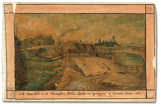 Locks under construction, at the Saw Mill at Kingston Mills, 1830. The locks are part of the Rideau Canal on the Cataraqui River (Cataraqui Creek), and are located near Kingston, Ontario.